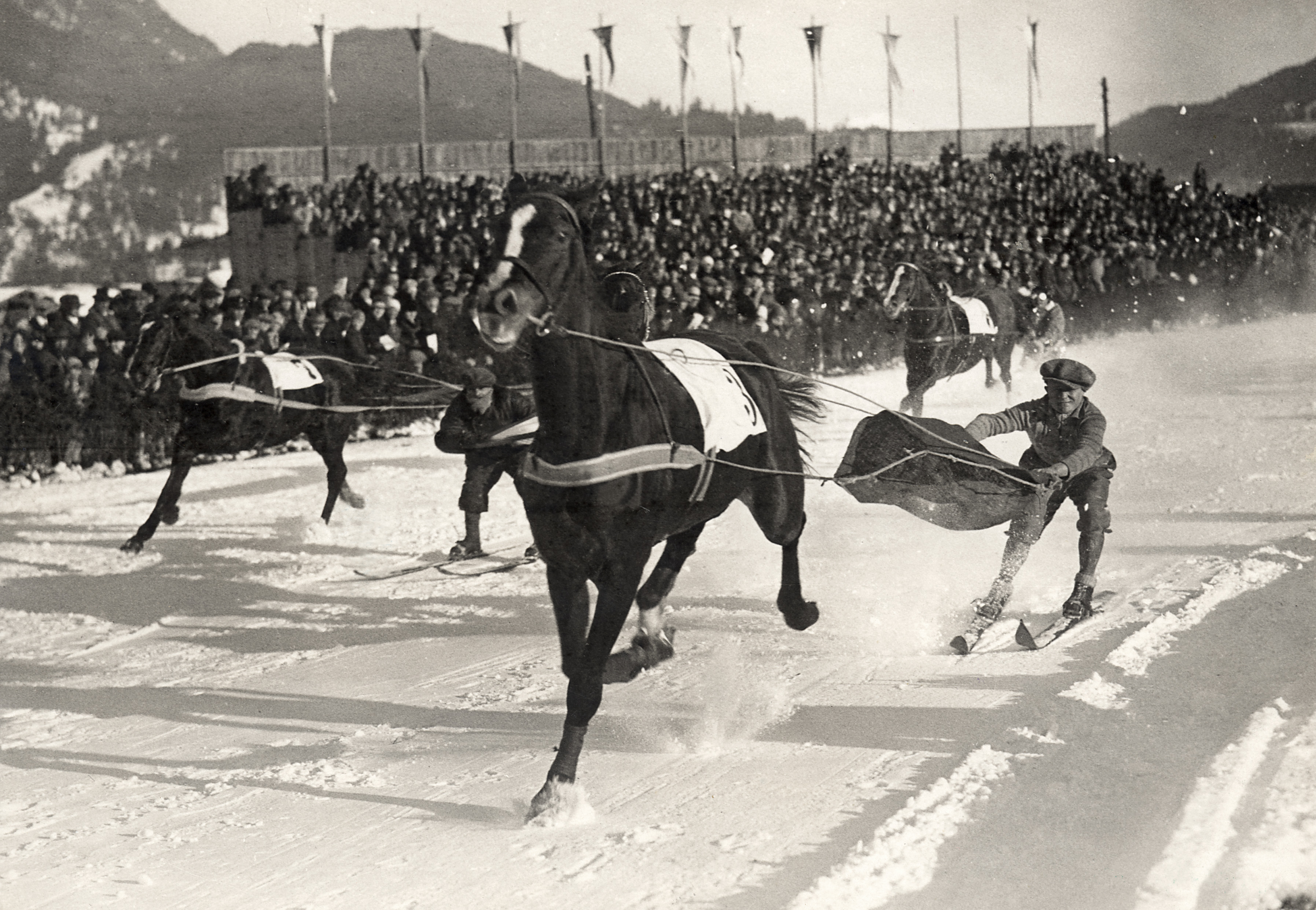 Nationaal Archief / Spaarnestad Photo, SFA008000941 "Skijoring": een wintersport waarbij deelnemers op ski's door galopperende paarden (of honden of motoren) worden voortgetrokken. Plaats onbekend, 1930. "Skijoring": people on skis pulled by a horse, dogs or a motor vehicle. Location unknown, 1930. You can help us gain more knowledge on the content of our collection by simply adding a comment with information. If you do not wish to log in, you can write an e-mail to